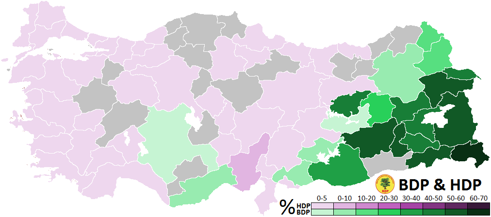 Results obtained by the BDP & HDP by province in the Turkish local elections of 2014.